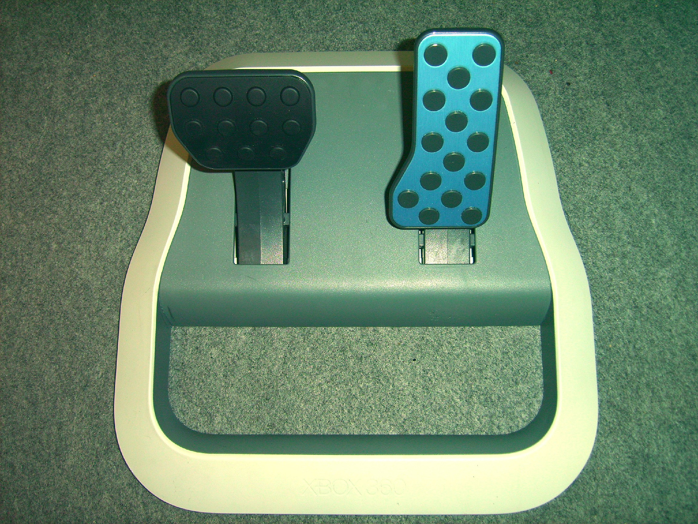 The pedal part (accelerator and brake) of "Haptic Racing Wheel" for PGR3.